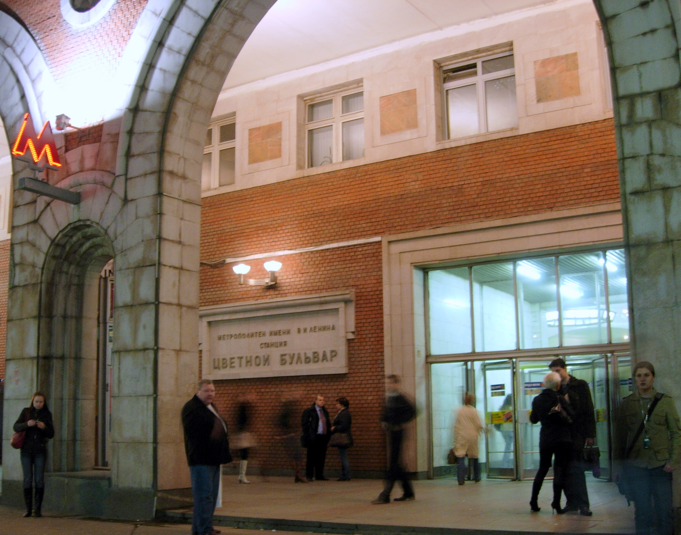 Tsvetnoi Bulvar subway station